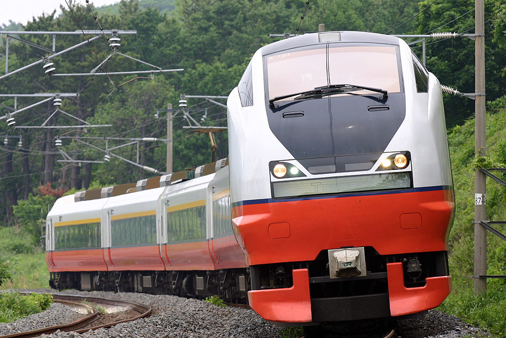 JR East E751 series EMU on a "Tsugaru" limited express service between Asamushi-Onsen and Nishi-Hiranai stations